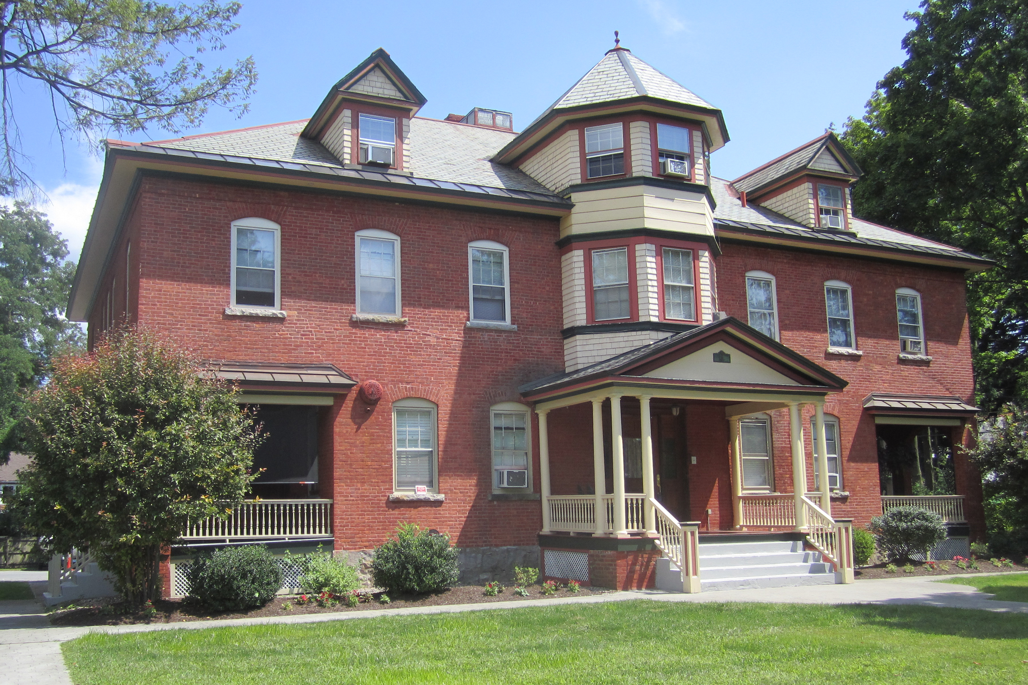 64-66 Ludlow St., Saratoga Springs NY. Former "Hawley Children's Home" (1905), designed by Newton Brezee